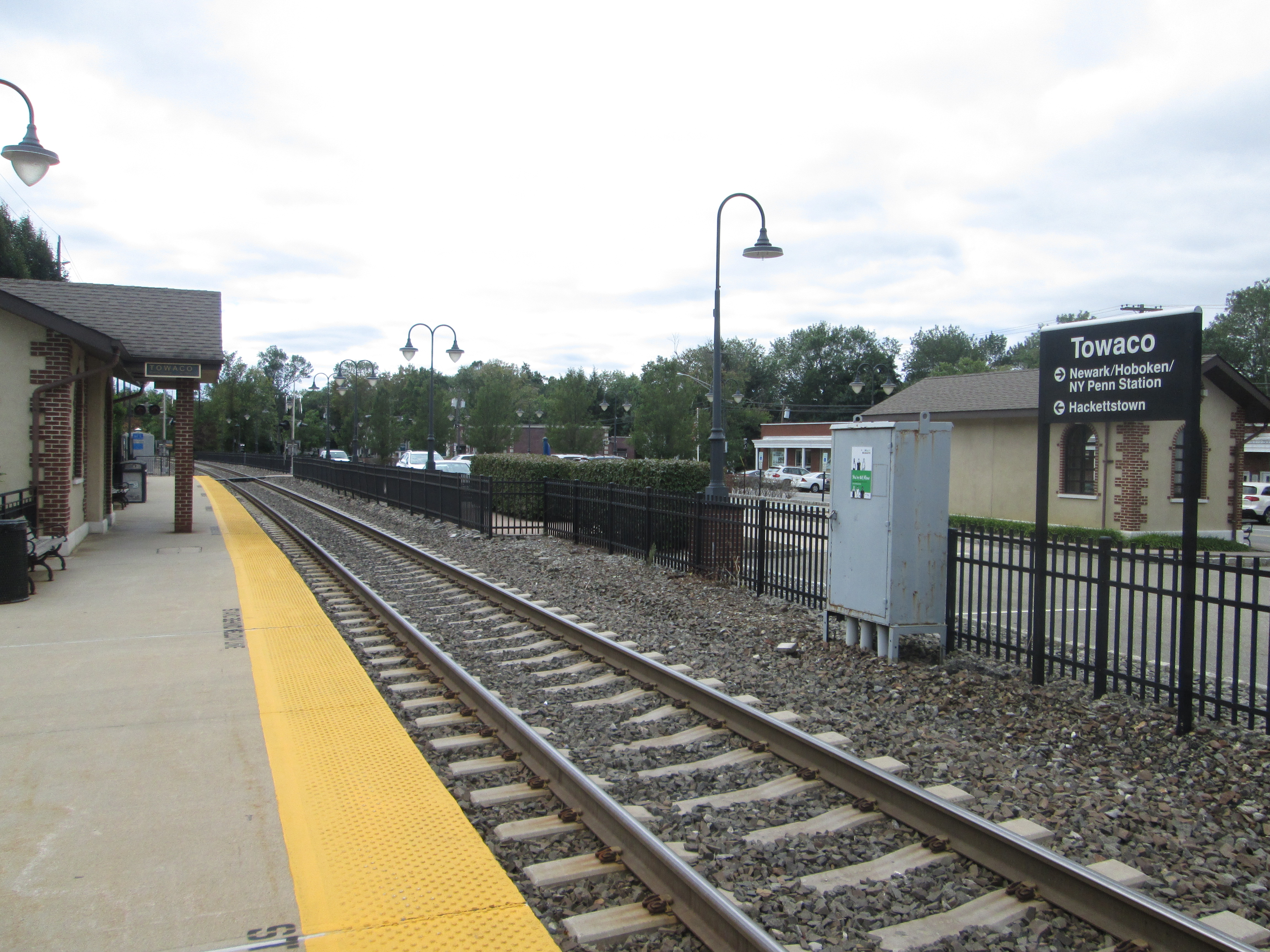 The Towaco New Jersey Transit station in Montville, New Jersey in September 2013.